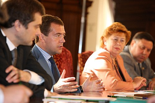 BARVIKHA, MOSCOW REGION. Dmitry Medvedev with Leaders of Non-Parliamentary Parties Right Cause, Yabloko and Patriots of Russia.